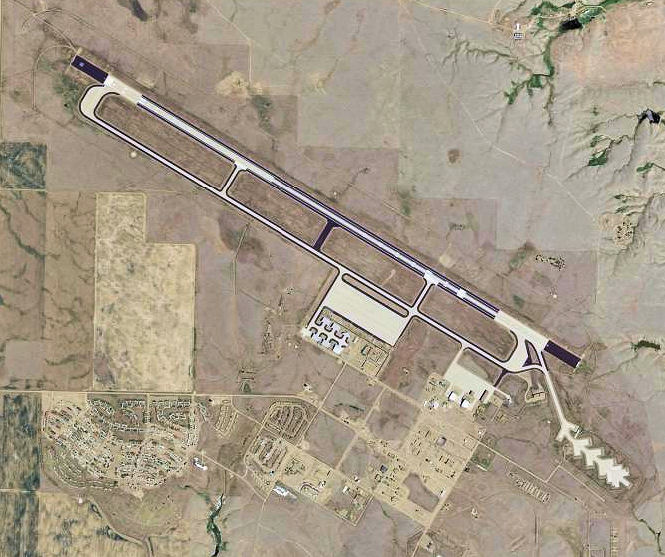 USGS digital orthophoto of Glasgow Air Force Base in Montana